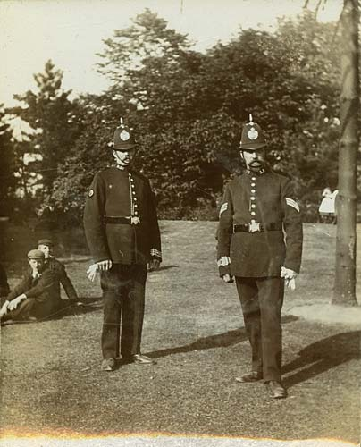 A photograph of two officers of Birmingham Parks Police. This photograph was taken for an album containing scenes in the parks during the Edwardian period.